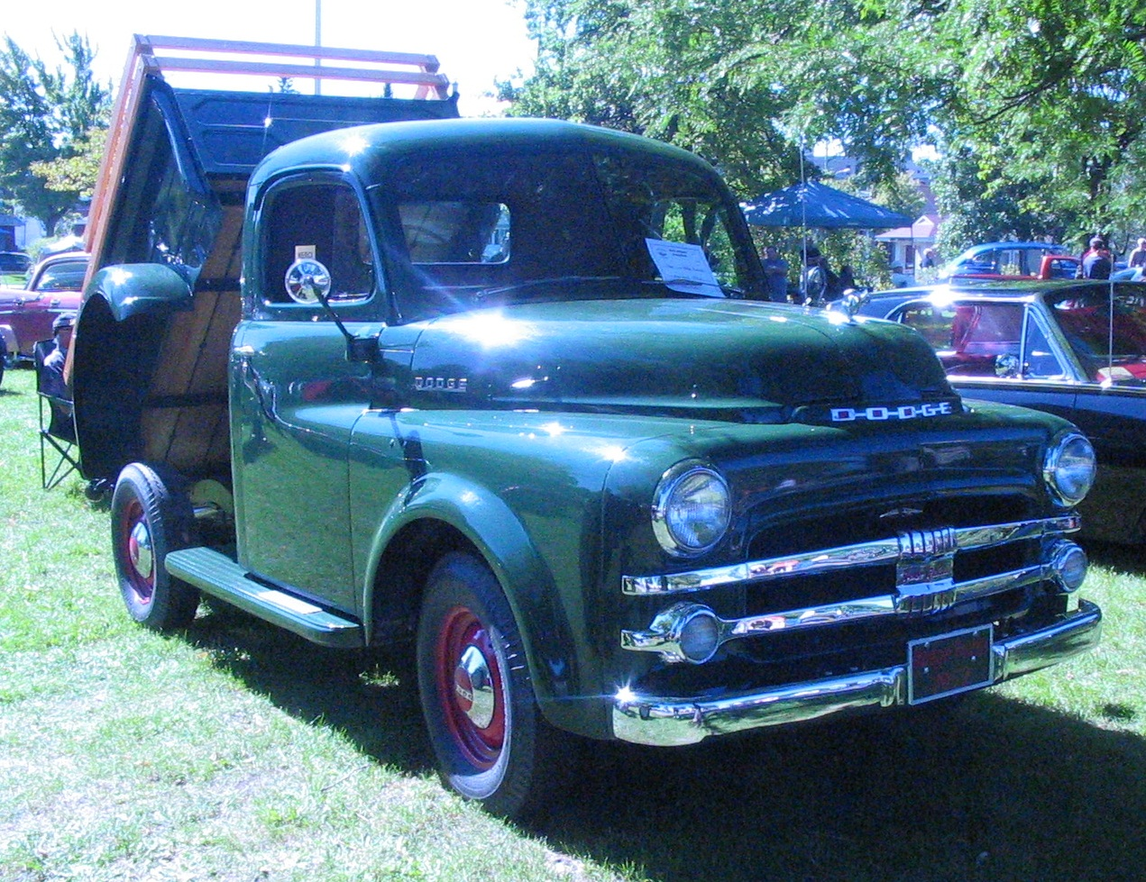 1952 Dodge B series photographed in Salaberry-De-Valleyfield, Quebec, Canada at Auto antique Salaberry-De-Valleyfield 2011.